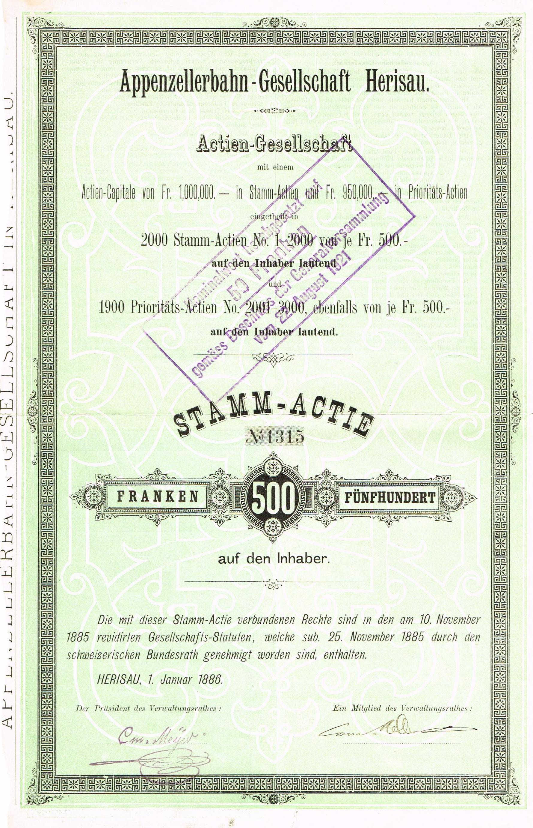 Share of the Appenzellerbahn-Gesellschaft, issued 1. January 1886